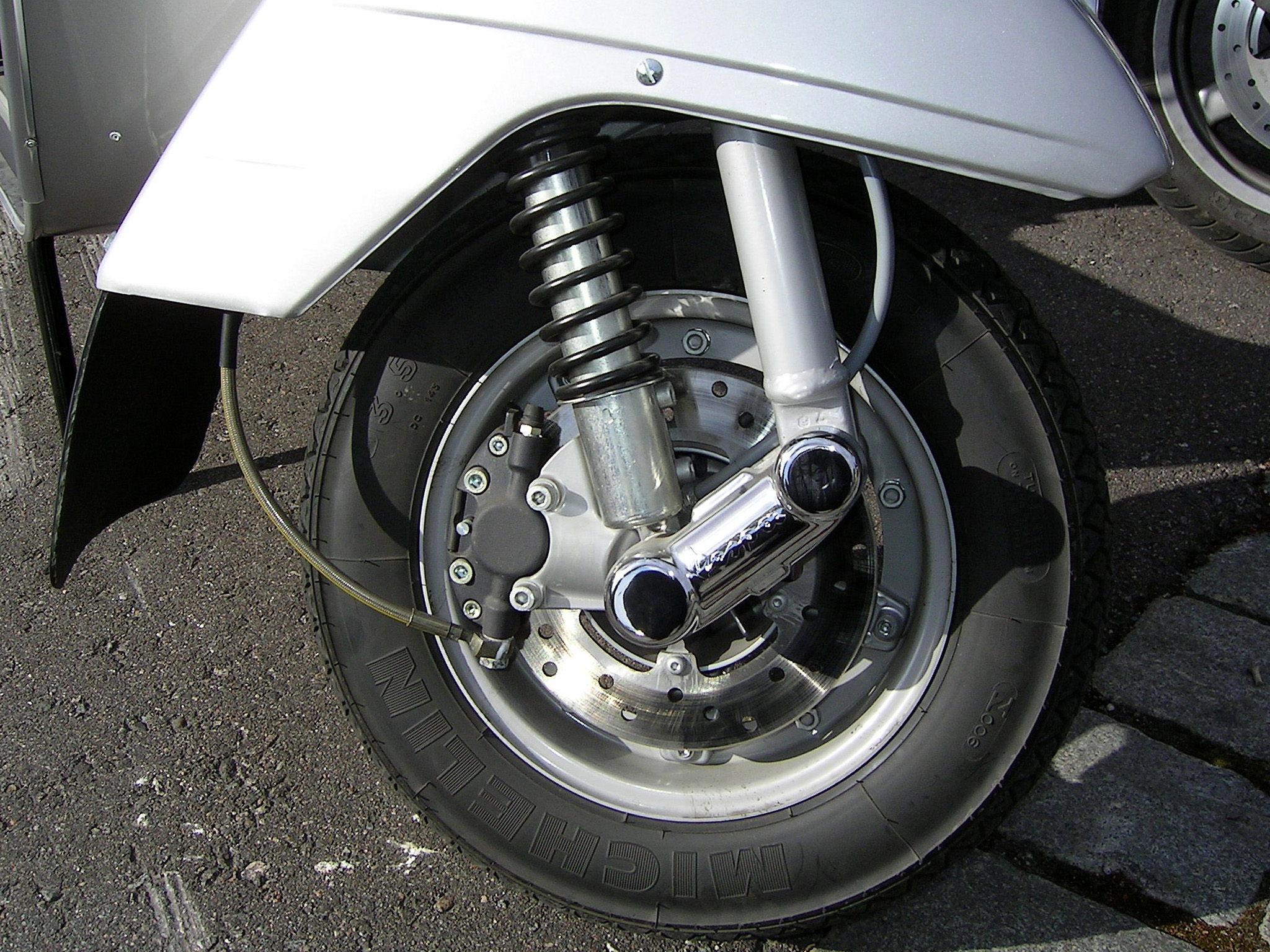 Landing gear like front suspension, a swing-arm, is characteristic of classic scooters (featured: Vespa PX).